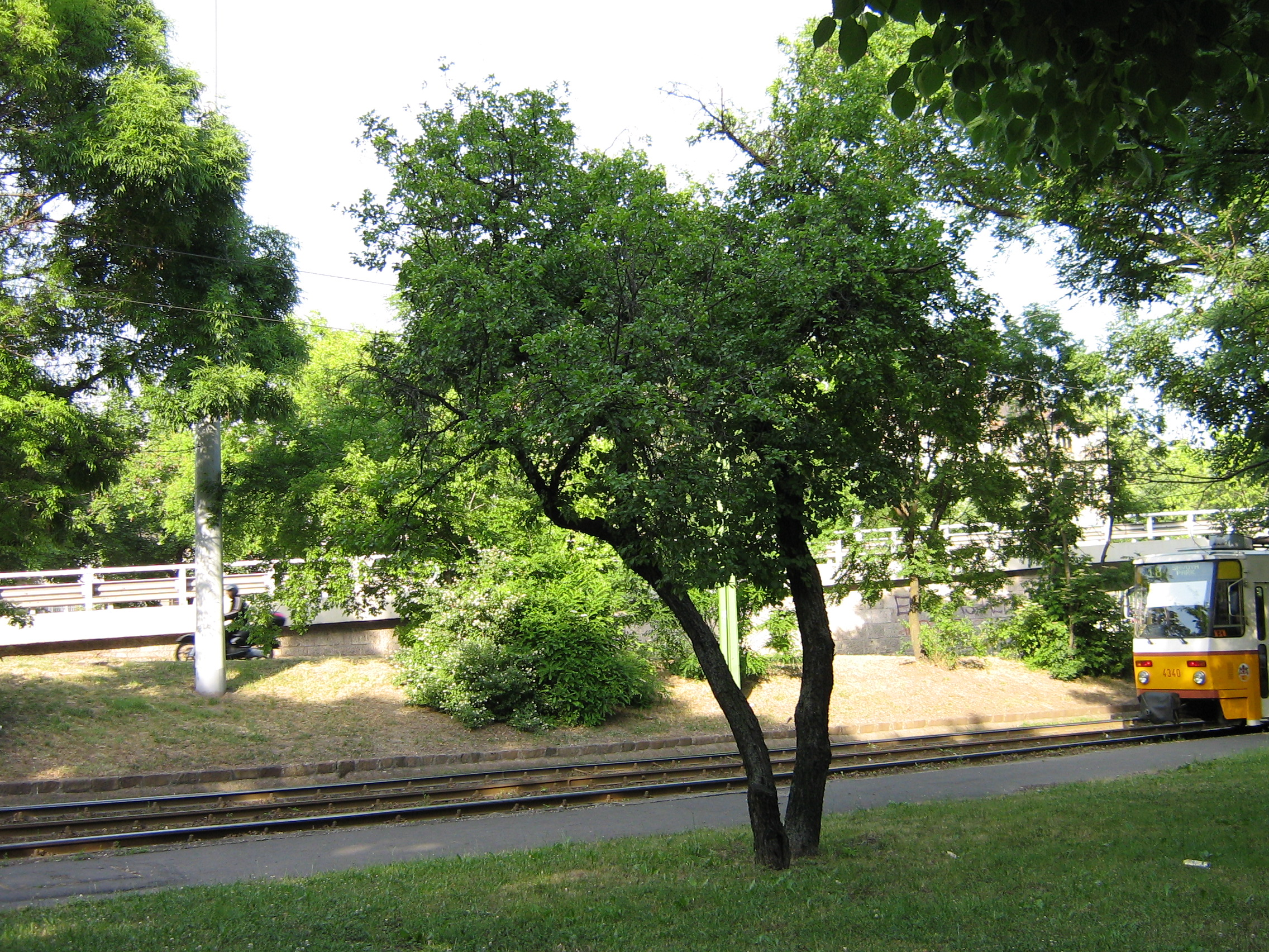 Two tree-sized Rhamnus cathartica In Budapest.